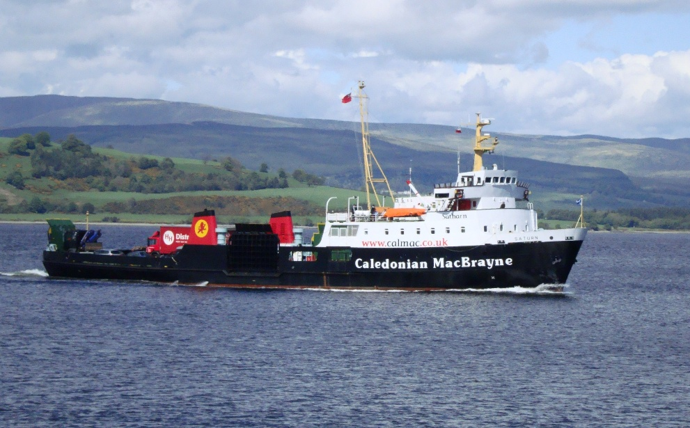 Car ferry MV Saturn arriving at Gourock, Scotland